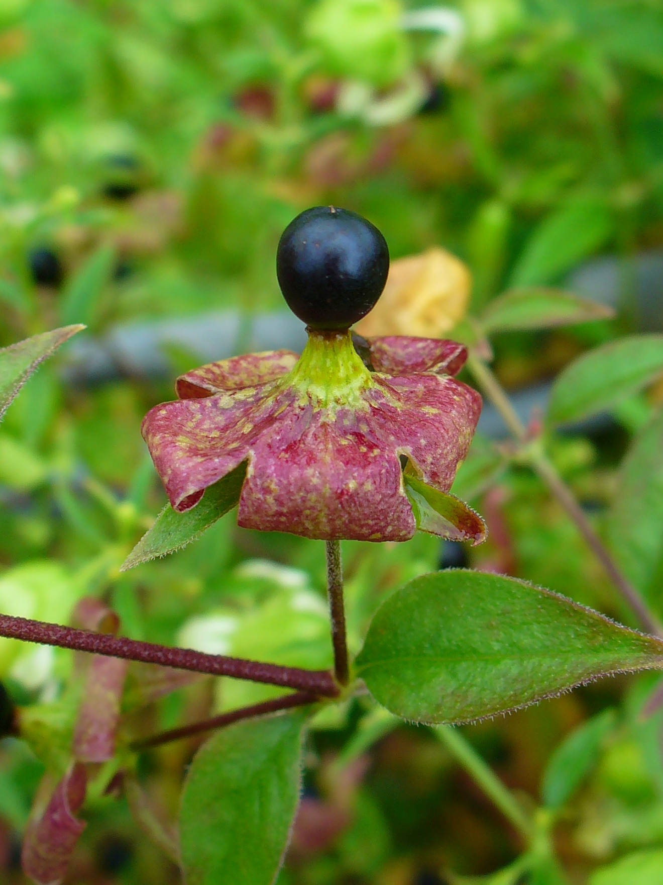 Silene baccifera, Caryophyllaceae, Berry Catchfly, fruit; Botanical Garden KIT, Karlsruhe, Germany.